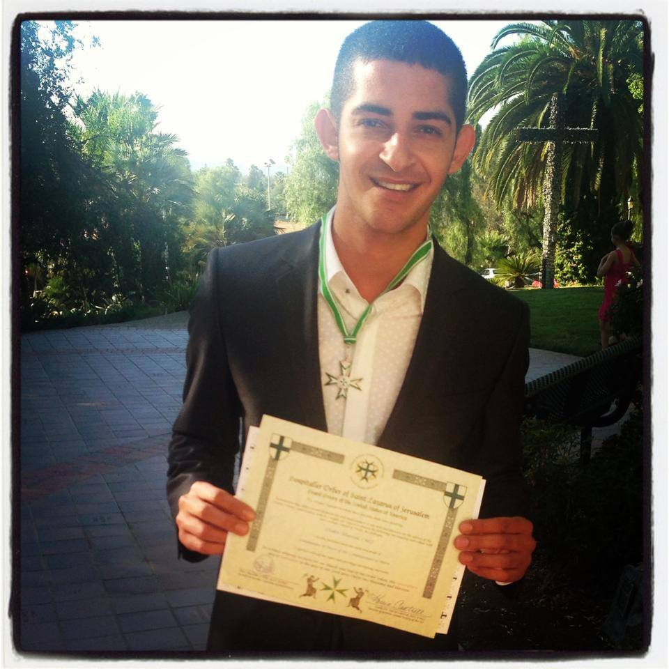 Chaker Khazaal accepting the Saint Lazarus Award to be used in the award section